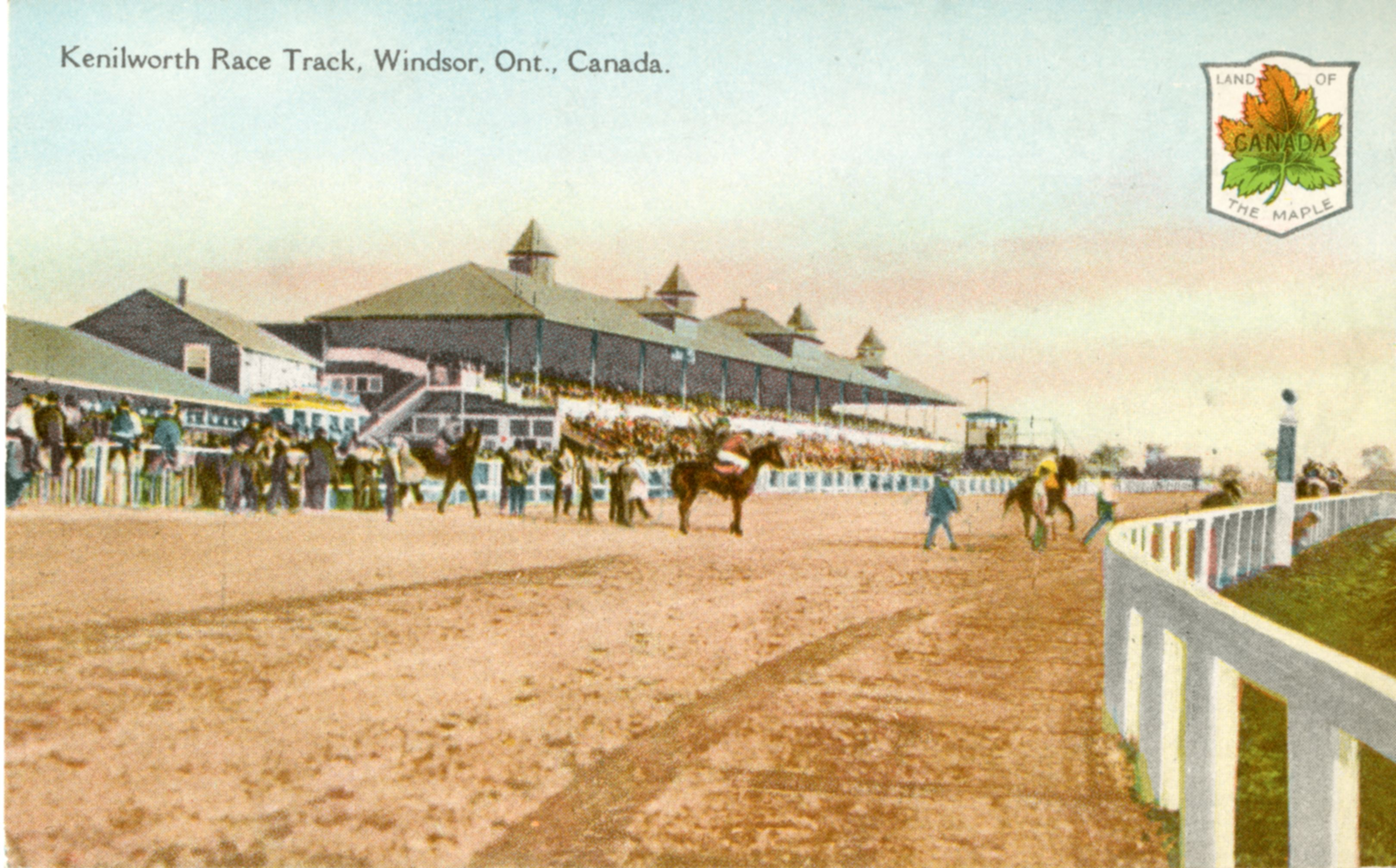 View of Kenilworth Park showing track and grandstand in 1930.